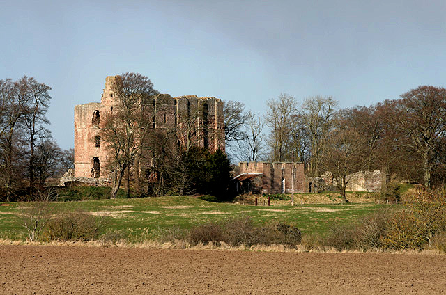 Norham Castle The castle was built for the Bishop of Durham in 1121. Despite being dismantled, remodelled several times and suffering from Border warfare, it is still an impressive sight and one of the most complete defensive buildings on the Border. Viewed from the edge of the square in a large field on the north side of the B6470.